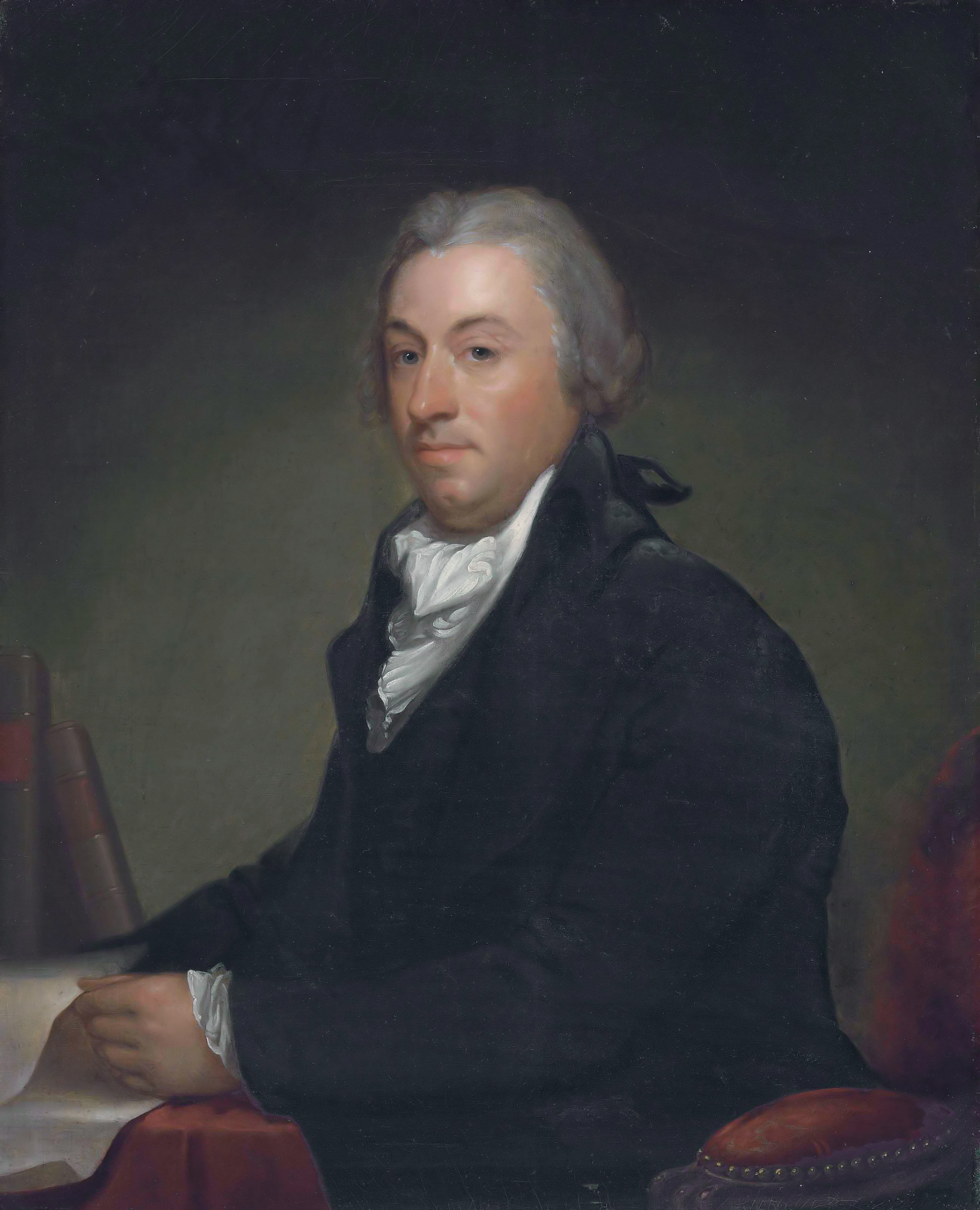 Robert R. Livingston oil on canvas 35¼ x 28½ inch